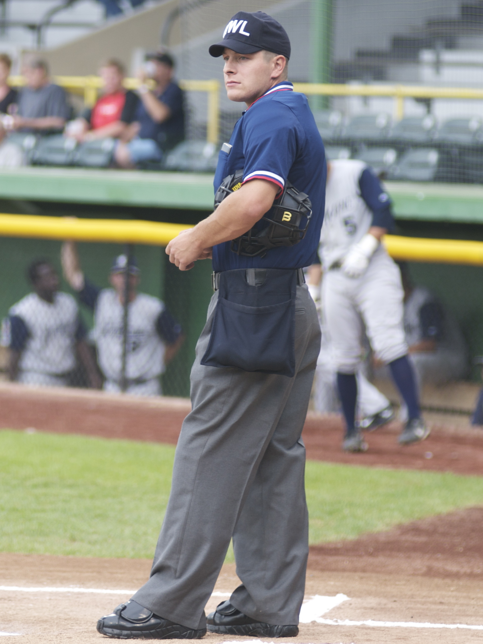 Umpires Ryan Blakney (left) and Ben May during a game between the Fort Wayne Wizards and Clinton LumberKings in 2008